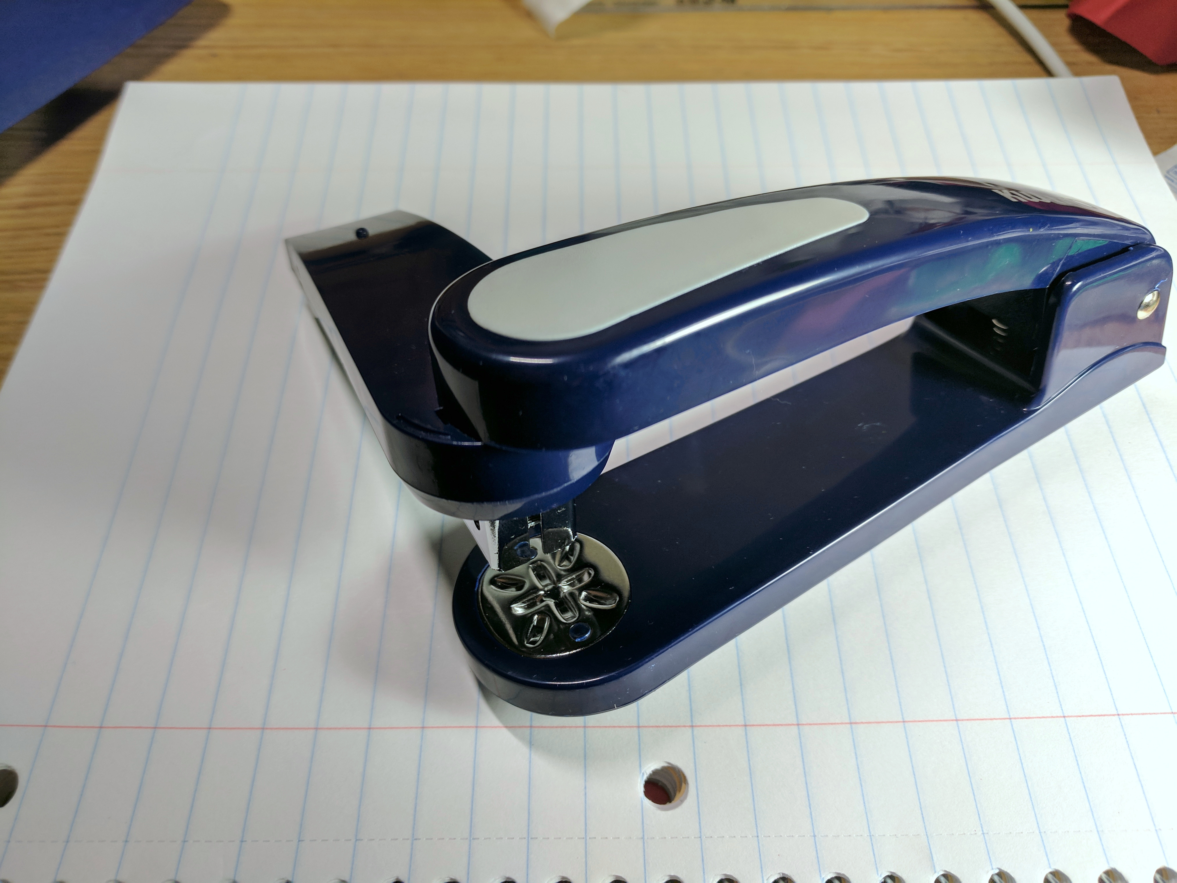 Booklet stapler with a rotatable top. Anvil bends leg outward at 45°, 135°, 225°, 315°, and inward at 0°, 90°, 180°, 360° rotation.